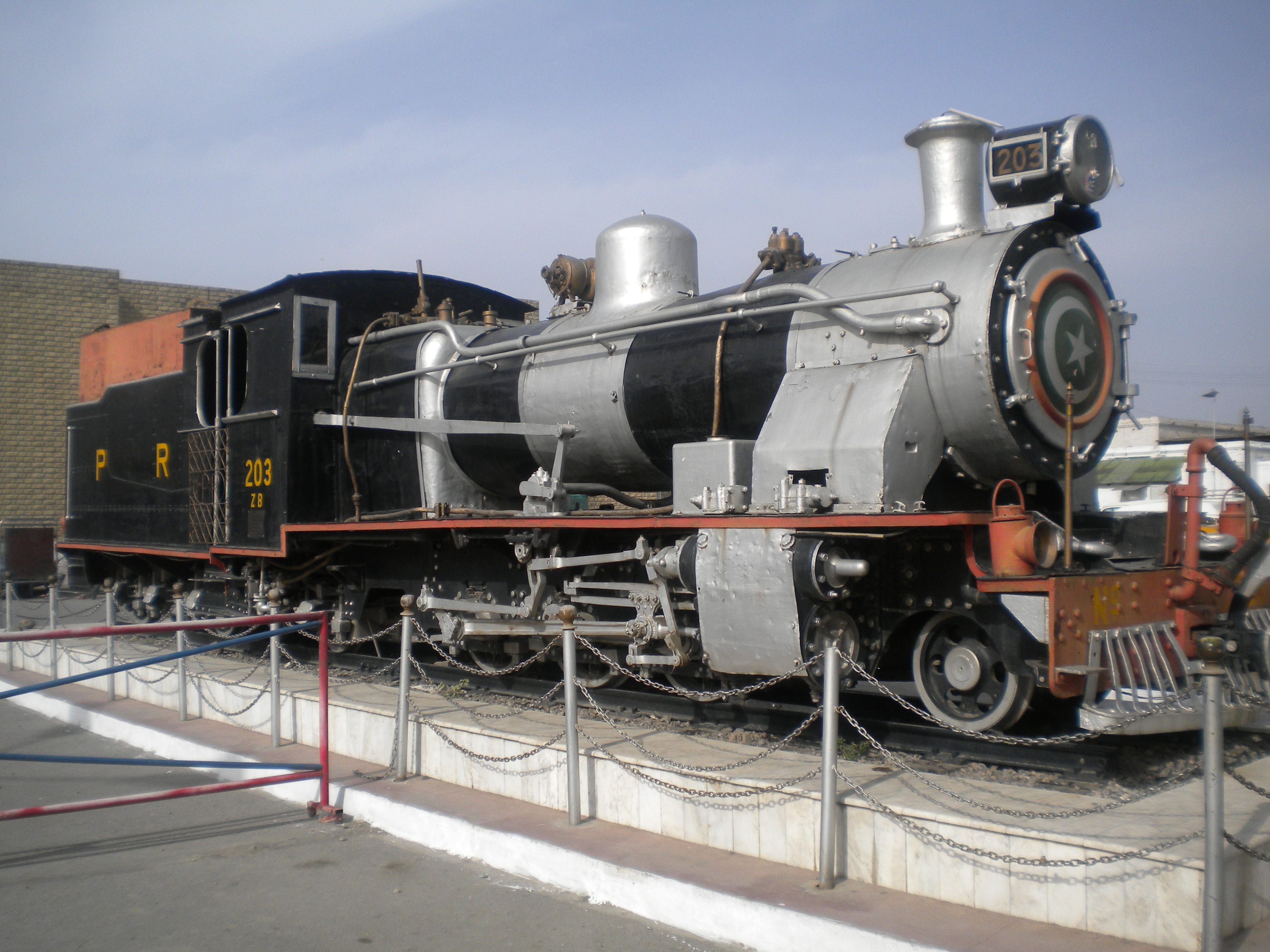 North Western Railway (India) class ZB Nº 203, later Pakistan Railway Nº 203. Ran between Kohat Tal mari Indus Bannu in Pakistan. Hanomag 10759 of 1932.